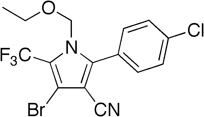 Chemical structure of chlorfenapyr created with ChemDraw